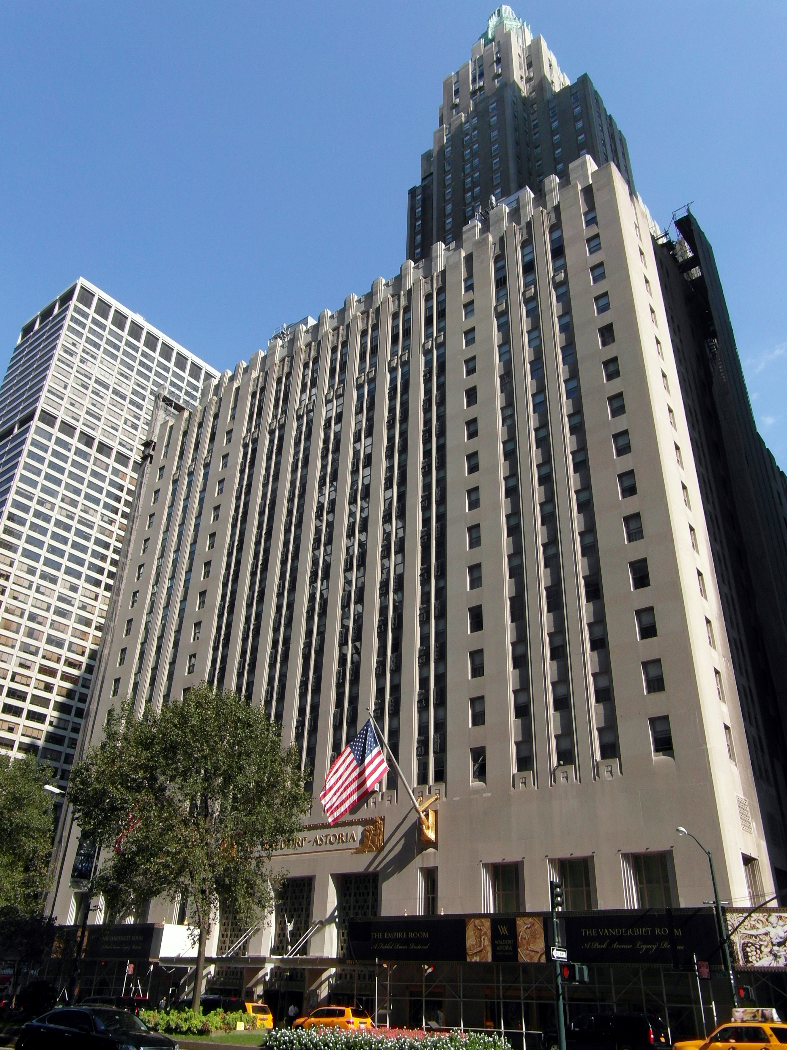 301 Park Avenue, New York. Designed by Schultze and completed in 1929-31